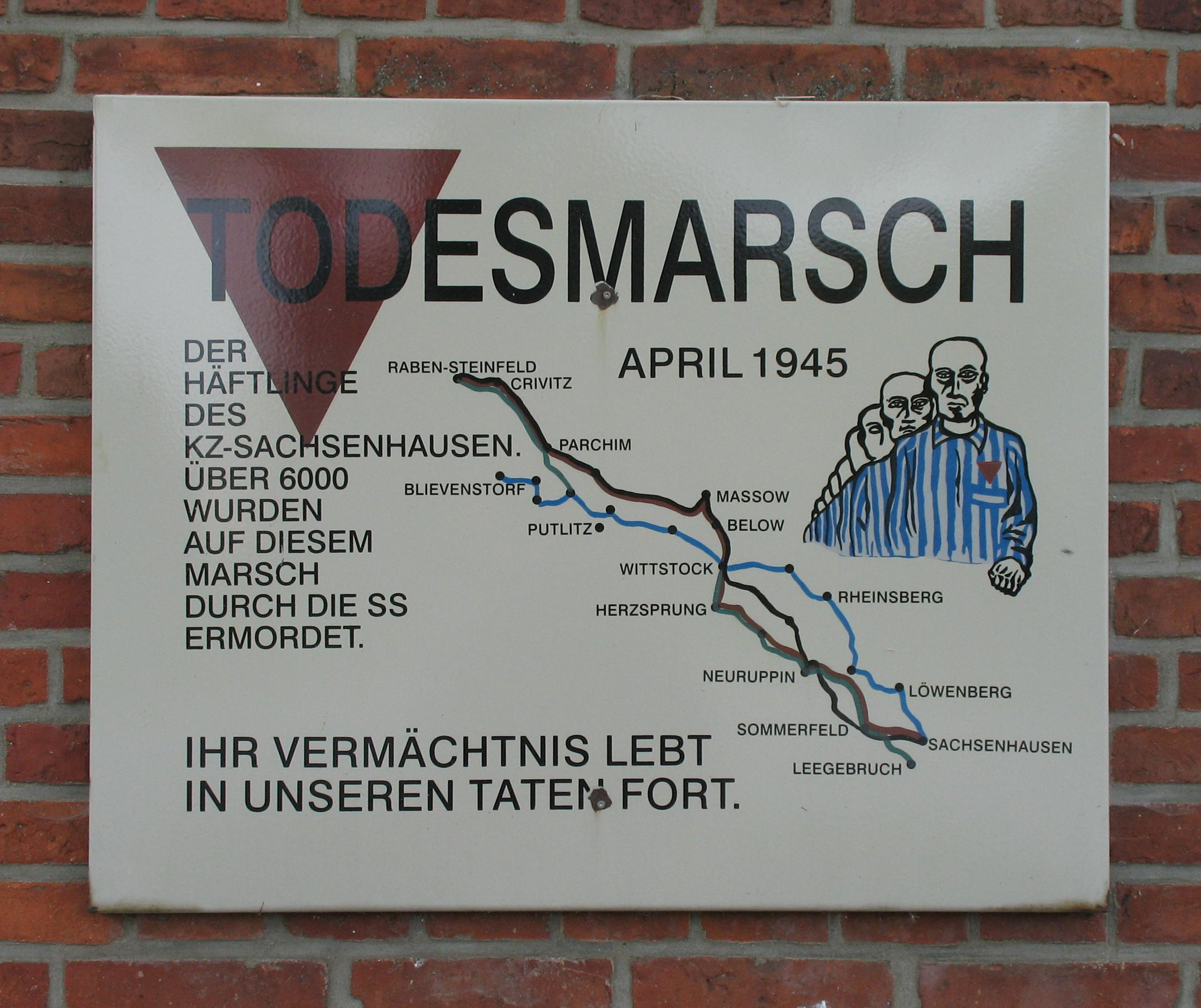 Memorial plaque to the victims of the death march in Putlitz-Porep in Brandenburg, Germany